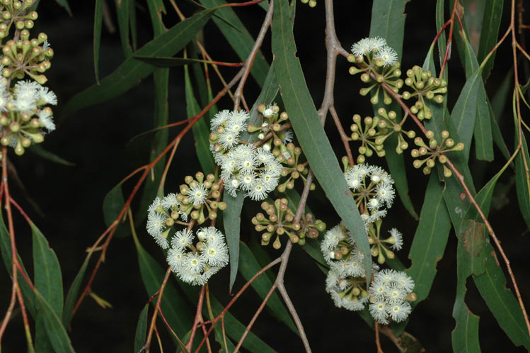 Flower buds of Eucalyptus elata at Caoura Ridge, Morton National Park, NSW